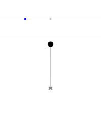 Image representing the pendulum on its unstable equilibrium state. Imagem representando o pêndulo em seu estado de equilíbrio instável.